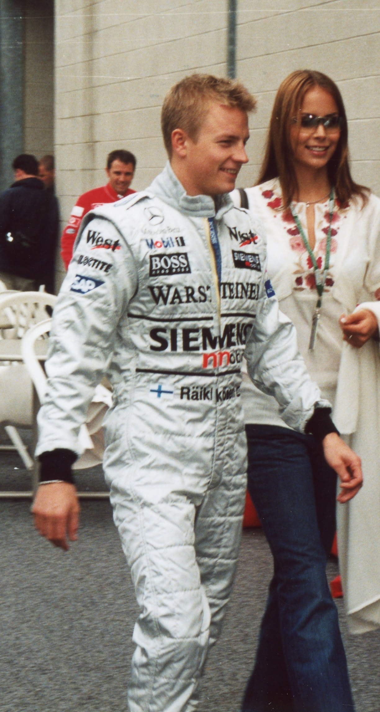 Kimi Räikkönen, Indianapolis, 2002